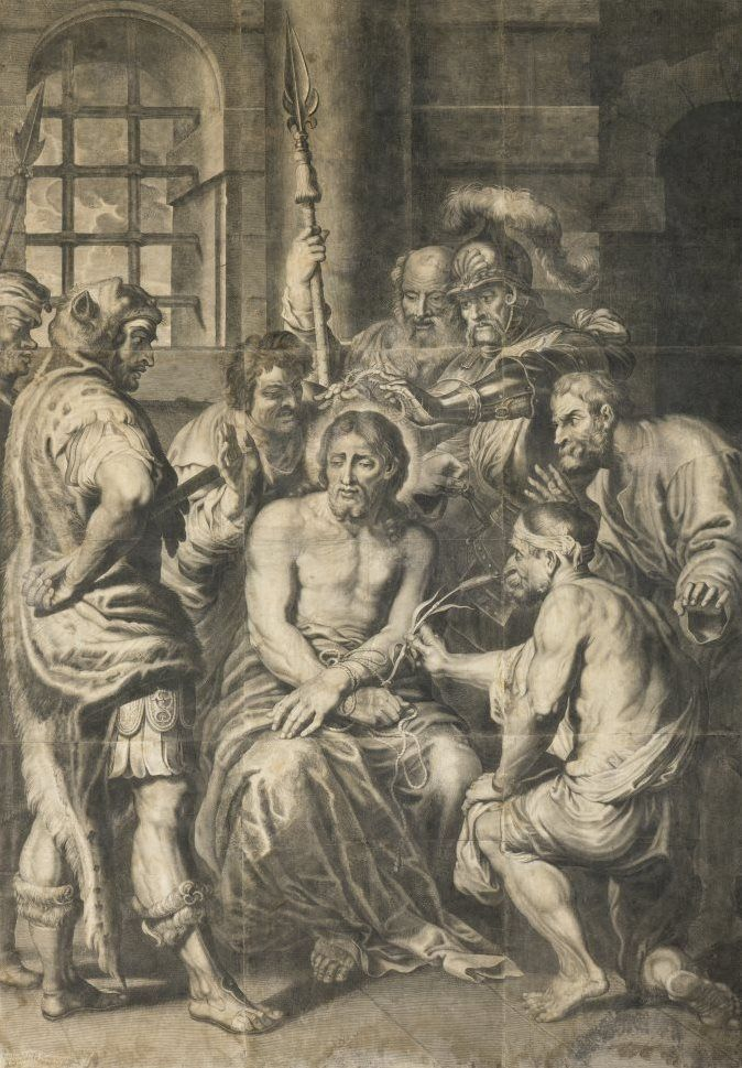 The Mocking of Christ